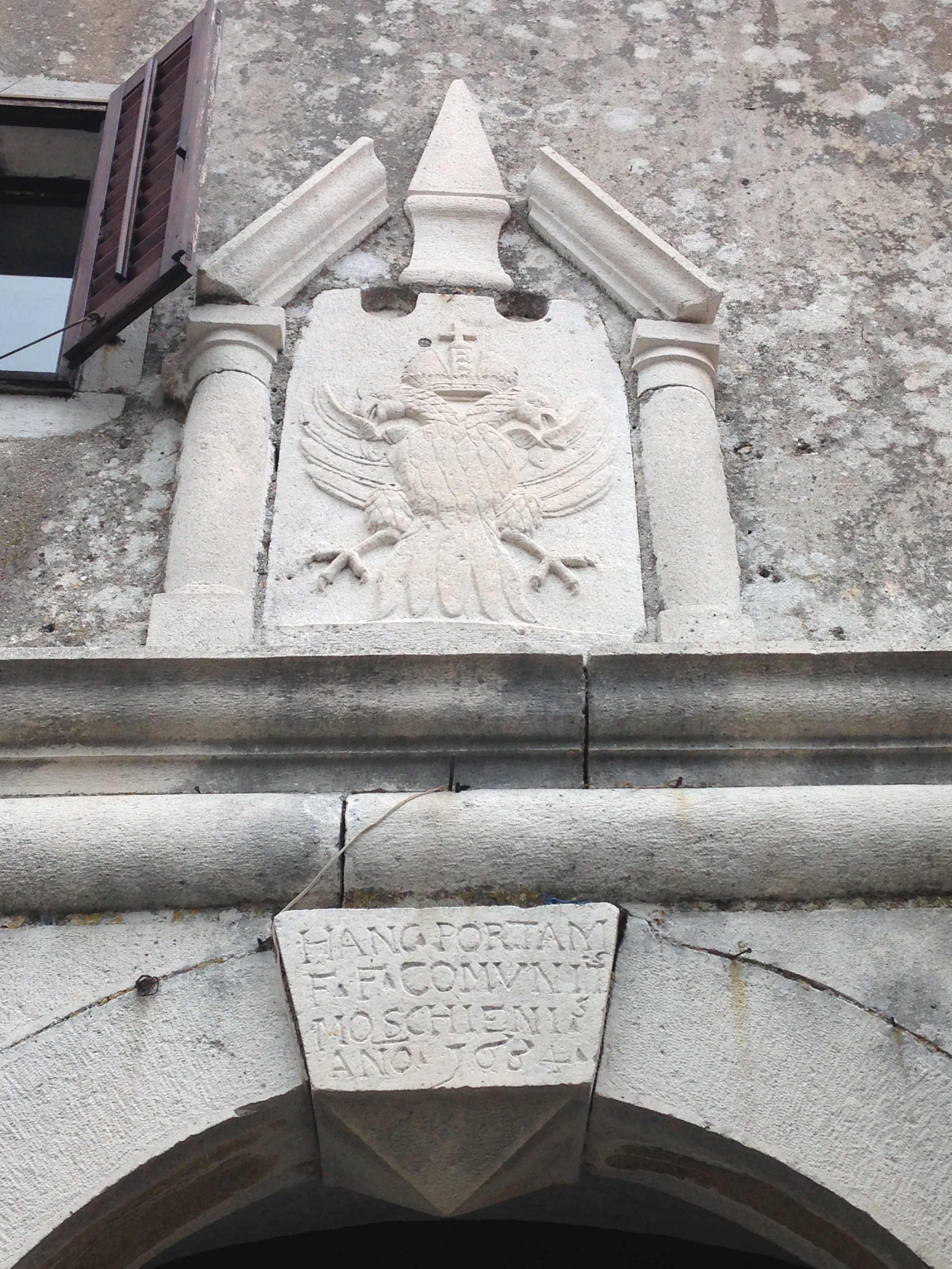 Mošćenice (it. Moschiena).